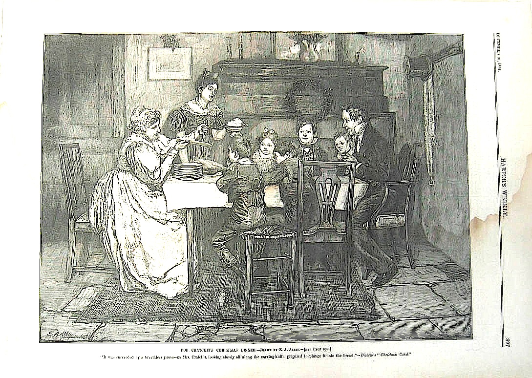 A Christmas Carol, Christmas dinner at the Cratchits', published by Harper's Magazine